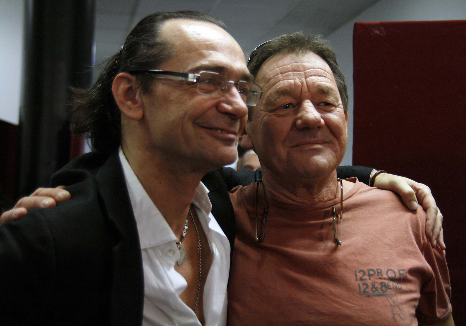 Wolfgang Ambros and Christian Kolonovits; charity concert 'atemberaubend 08' in support of researching pulmonary hypertension (lungenhochdruck.at) at the Wiener Stadthalle.